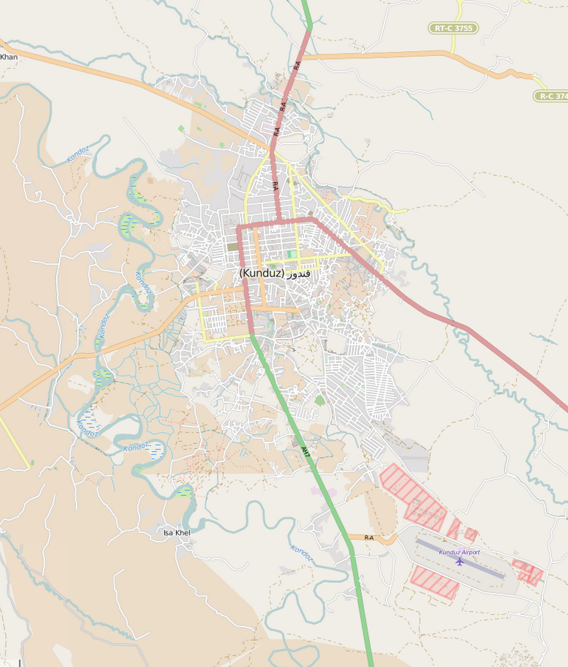 Kunduz city map